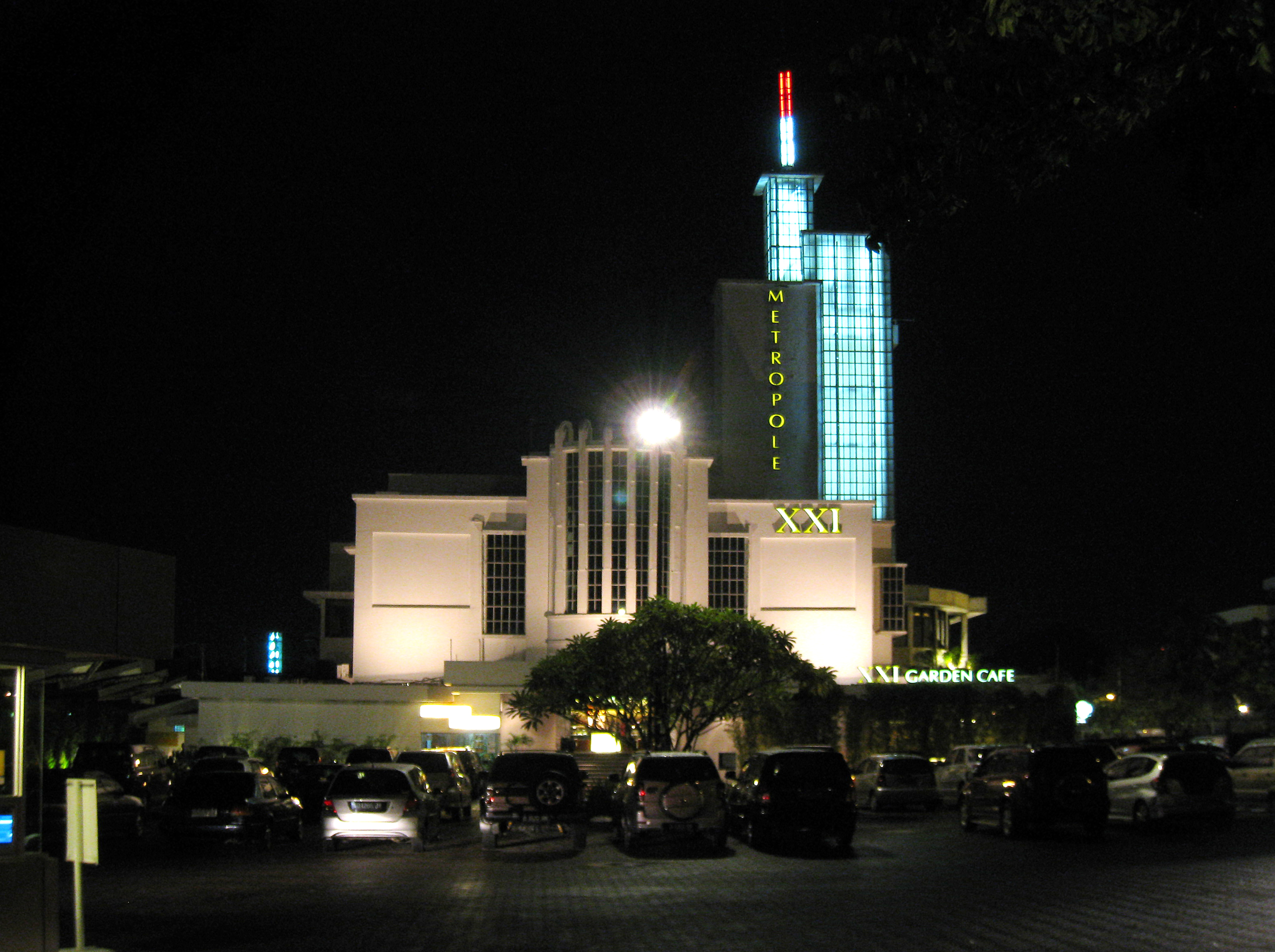 Metropole XXI Cinema at night in Menteng, Central Jakarta, featuring Art Deco architecture.